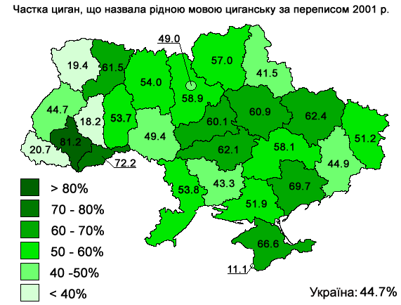 Roma language as native language of ukrainian roma population, 2001 census